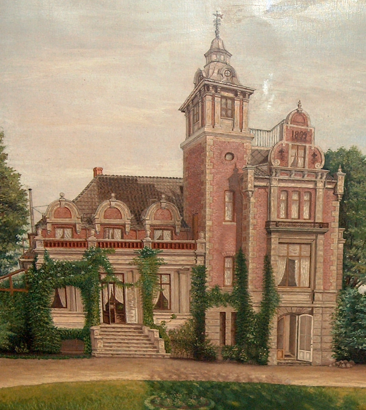 The Melchior family's country house Rolighed in Østerbro, Copenhagen, Denmark